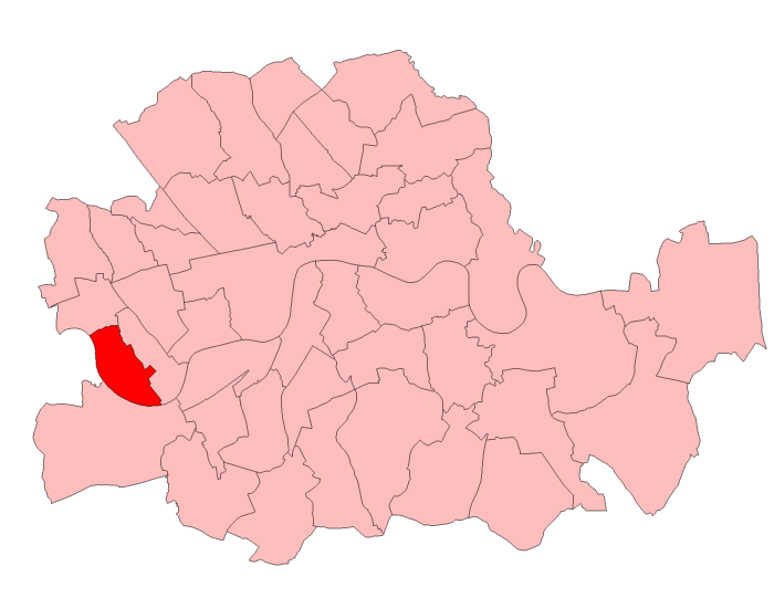 A map of Fulham West constituency within the London County Council area, as it existed from 1950 to 1955.